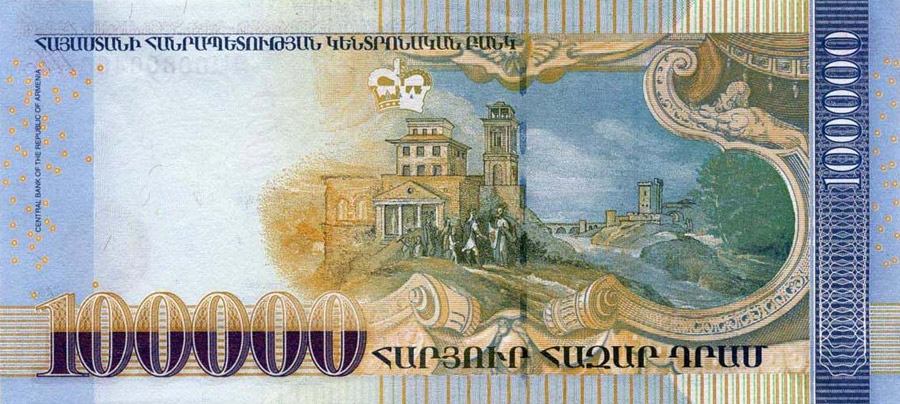 100000 dram 2009